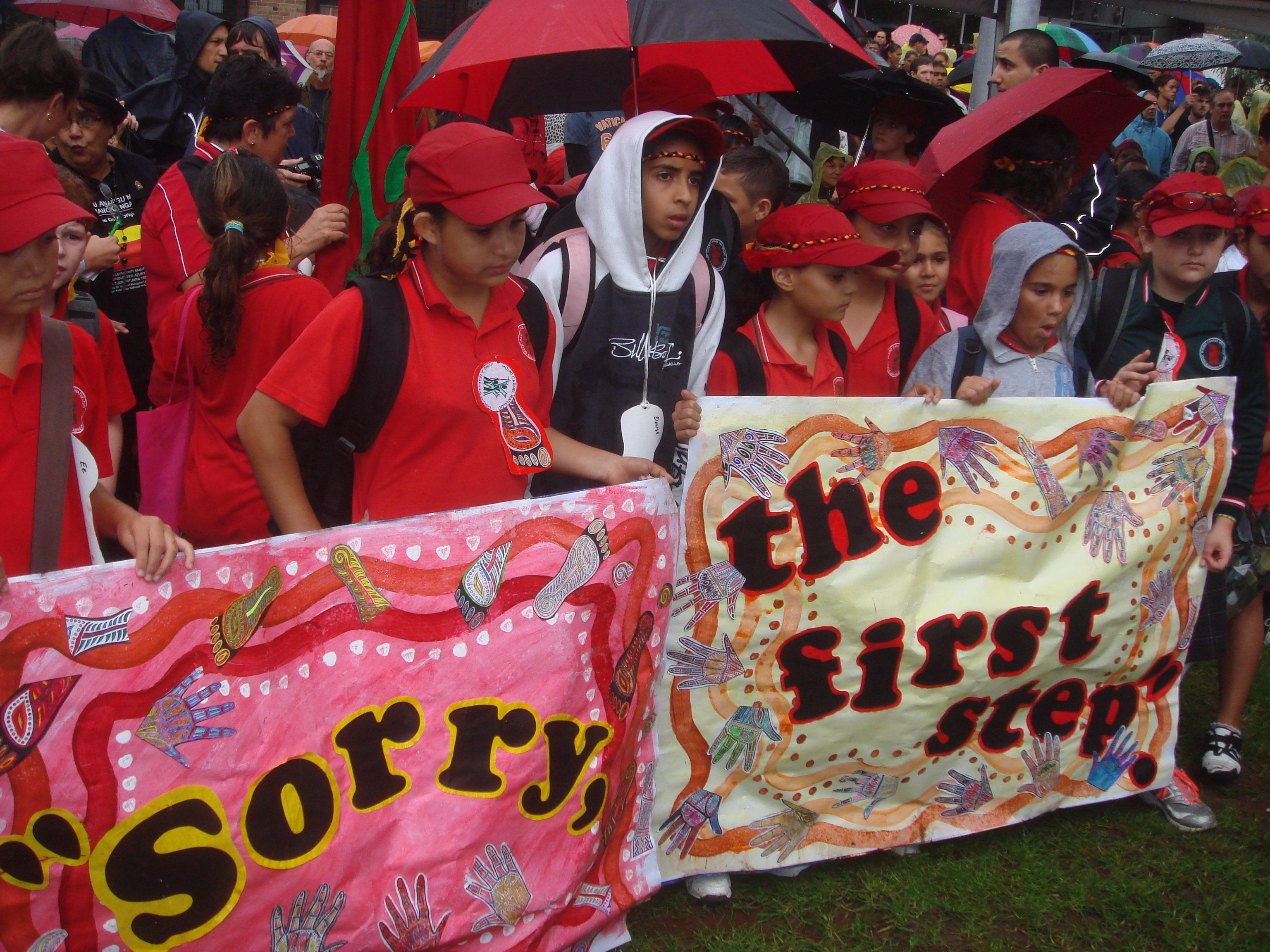 Children display banners at the Redfern Community Centre after watching the live telecast of the formal Apology to the Stolen Generations